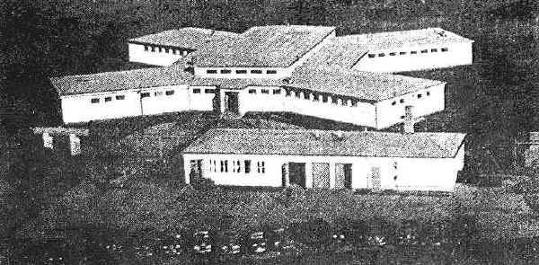 "Operations 6910th Security Wing" in Darmstadt bei Griesheim